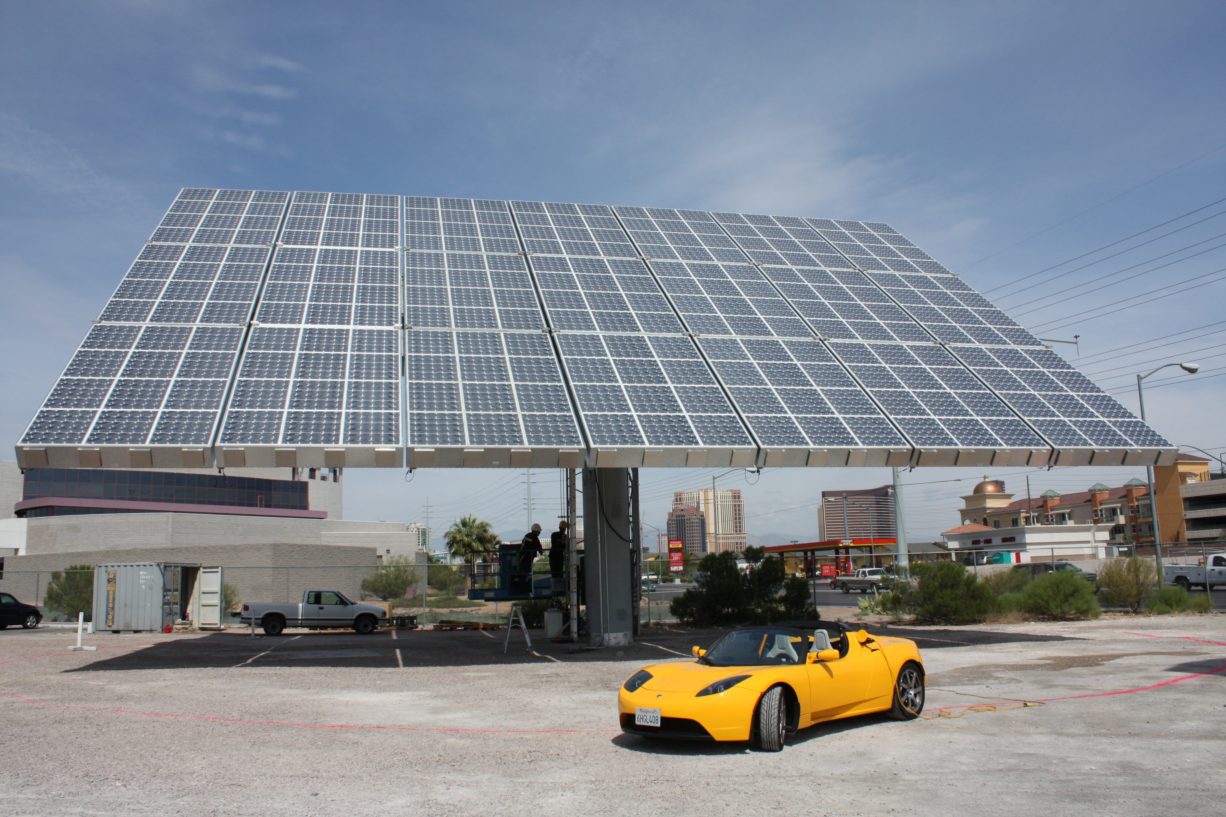 The Amonix 7700 Solar Power Generator (53 kW AC, PVUSA conditions) with a Roadster plugged into the pedestal (for scale)